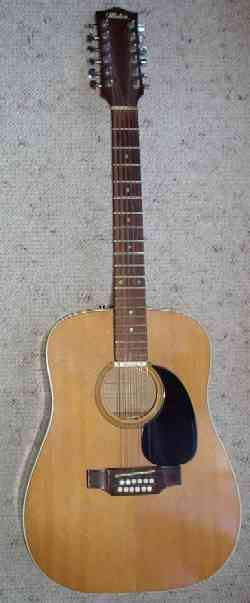 1973 Maton CW 80/12 "Anne-Marie" The Schaller heads are not original, but were fitted by Maton after one of the original open heads failed and several others were visibly wearing.